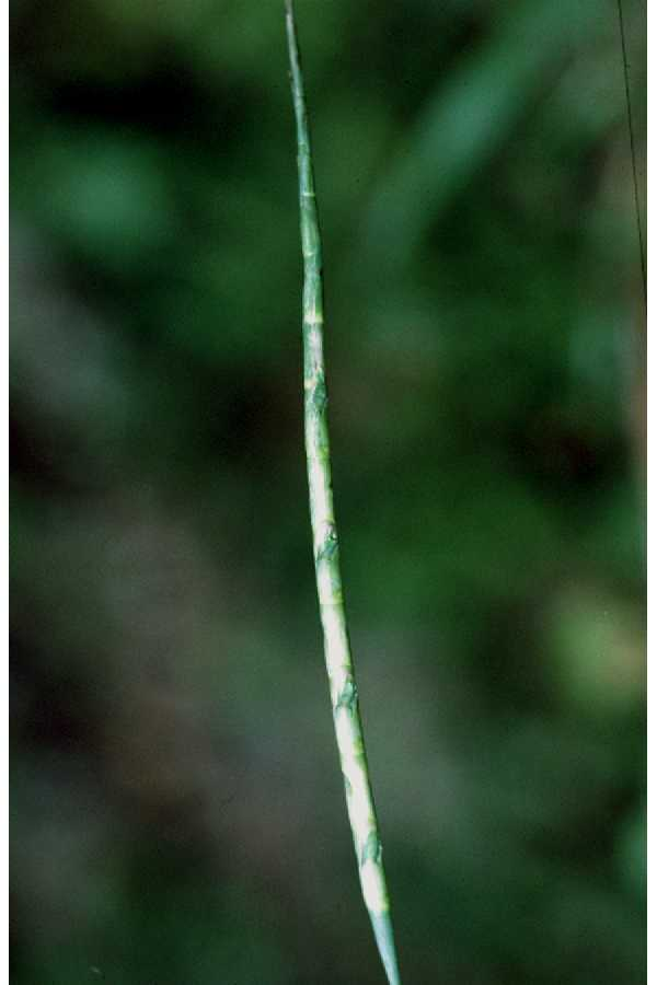 Coelorachis cylindrica